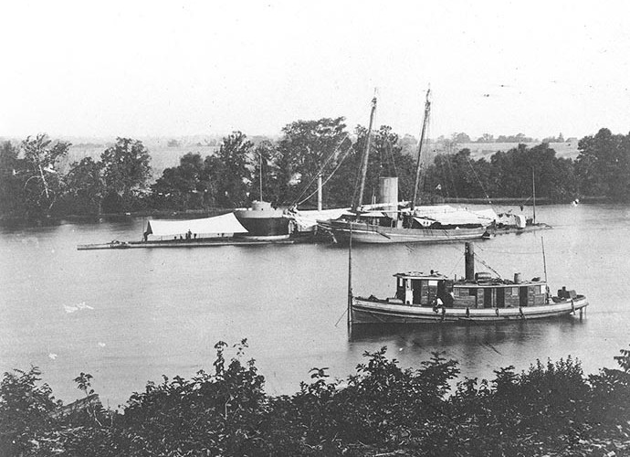 USS Canonicus (1864-1908) With awinings rigged and a schooner alongside, probably in the James River area, Virginia, in 1864-65. The tug USS Zeta (1864-65) is in the foreground. U.S. Naval Historical Center Photograph.